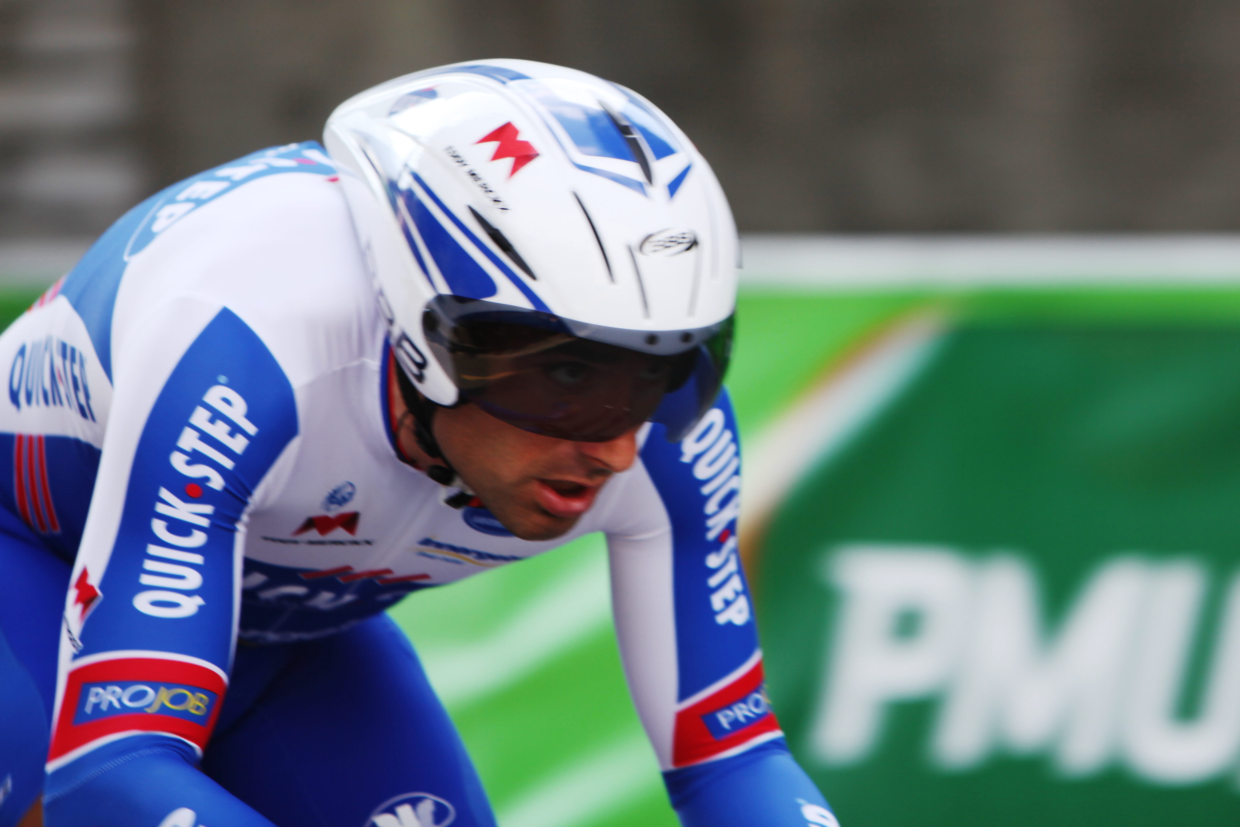 Francesco Chicci at the prologue of the Tour de Romandie 2011